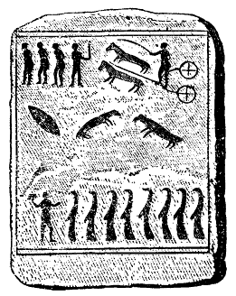 One of the slabs of stone in The King's Grave near Kivik, Sweden. Ca 1000 BC (the Nordic Bronze Age)